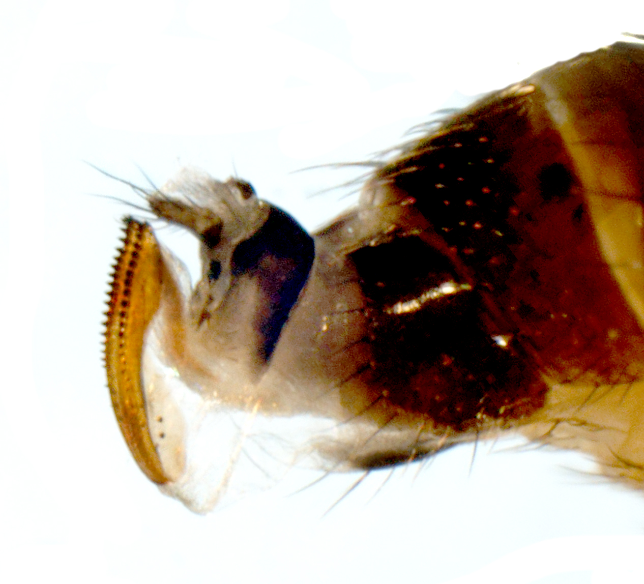 Drosophila suzukii female ovipositor